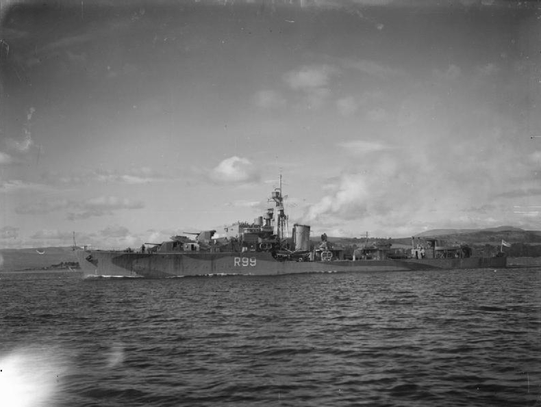 Photograph of British destroyer HMS Urchin underway off Greenock.